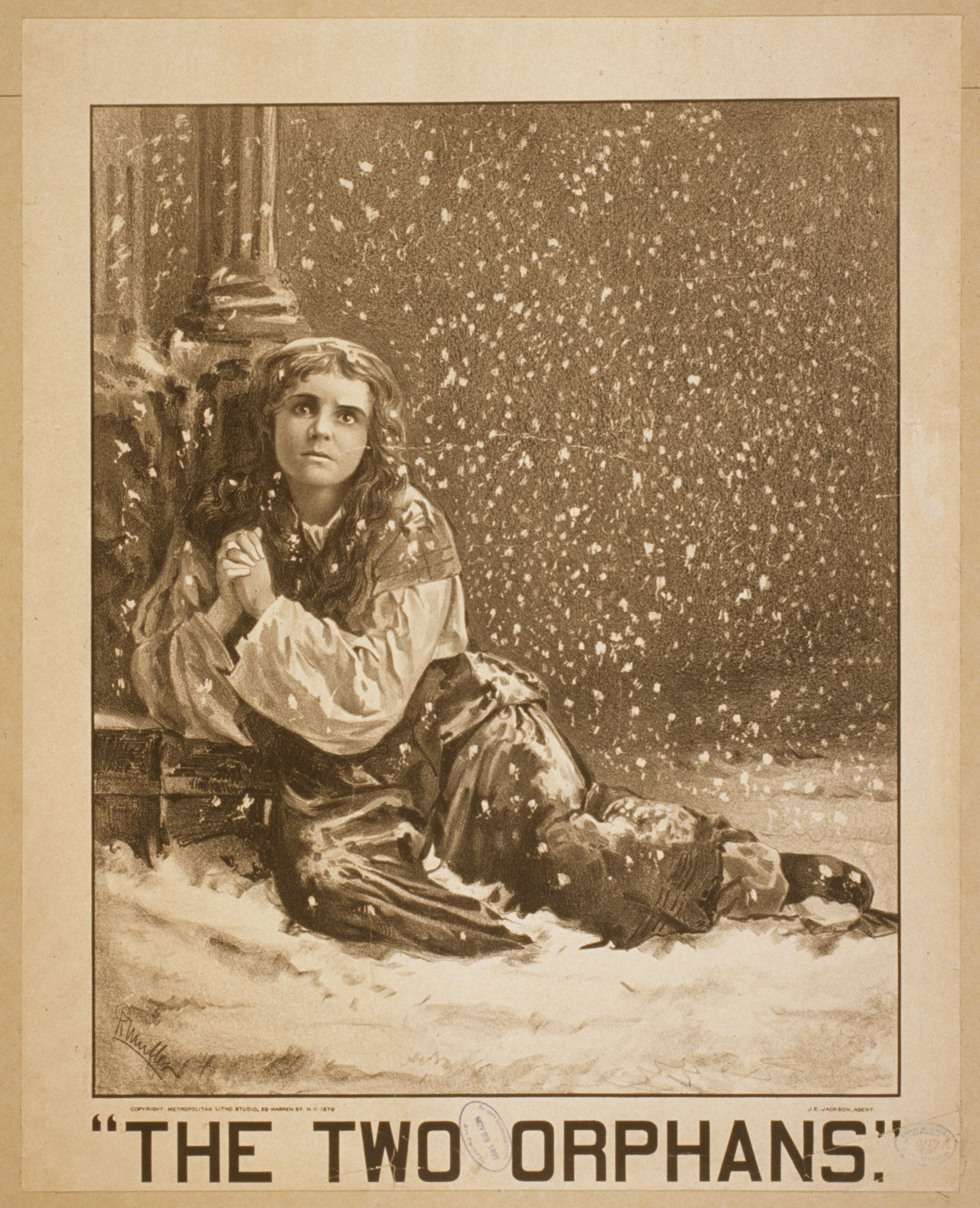 Title: The two orphans Abstract/medium: 1 print : black and white lithograph ; sheet 59 x 48 cm. (poster format)